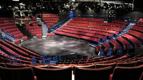 A view of the Circle In The Square Theater in New York